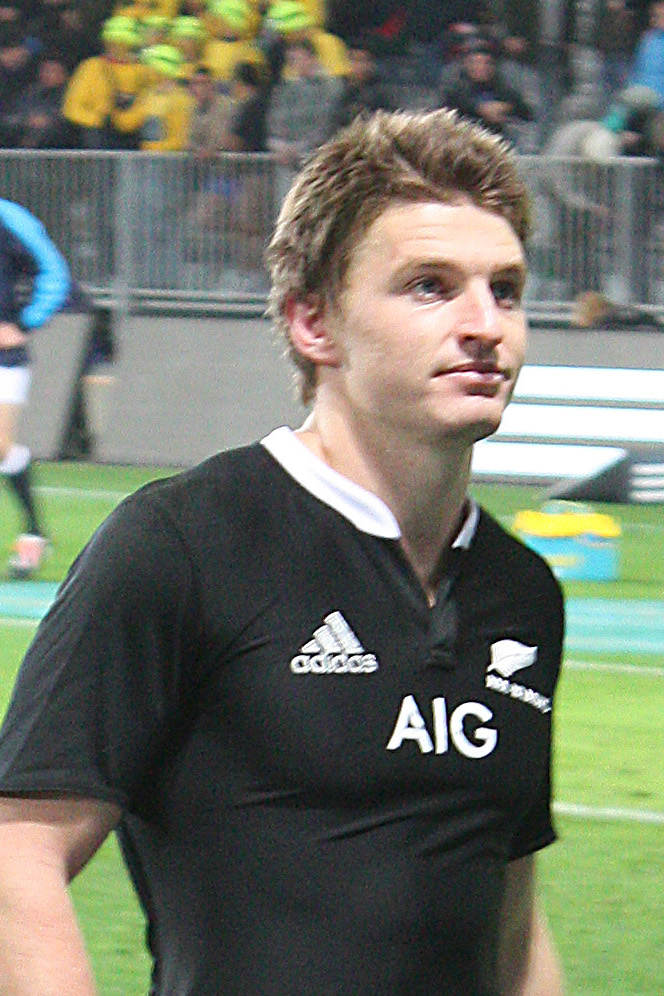 Beauden Barrett in Forsyth Barr Stadium Dunedin for the England Test 14 June 2014